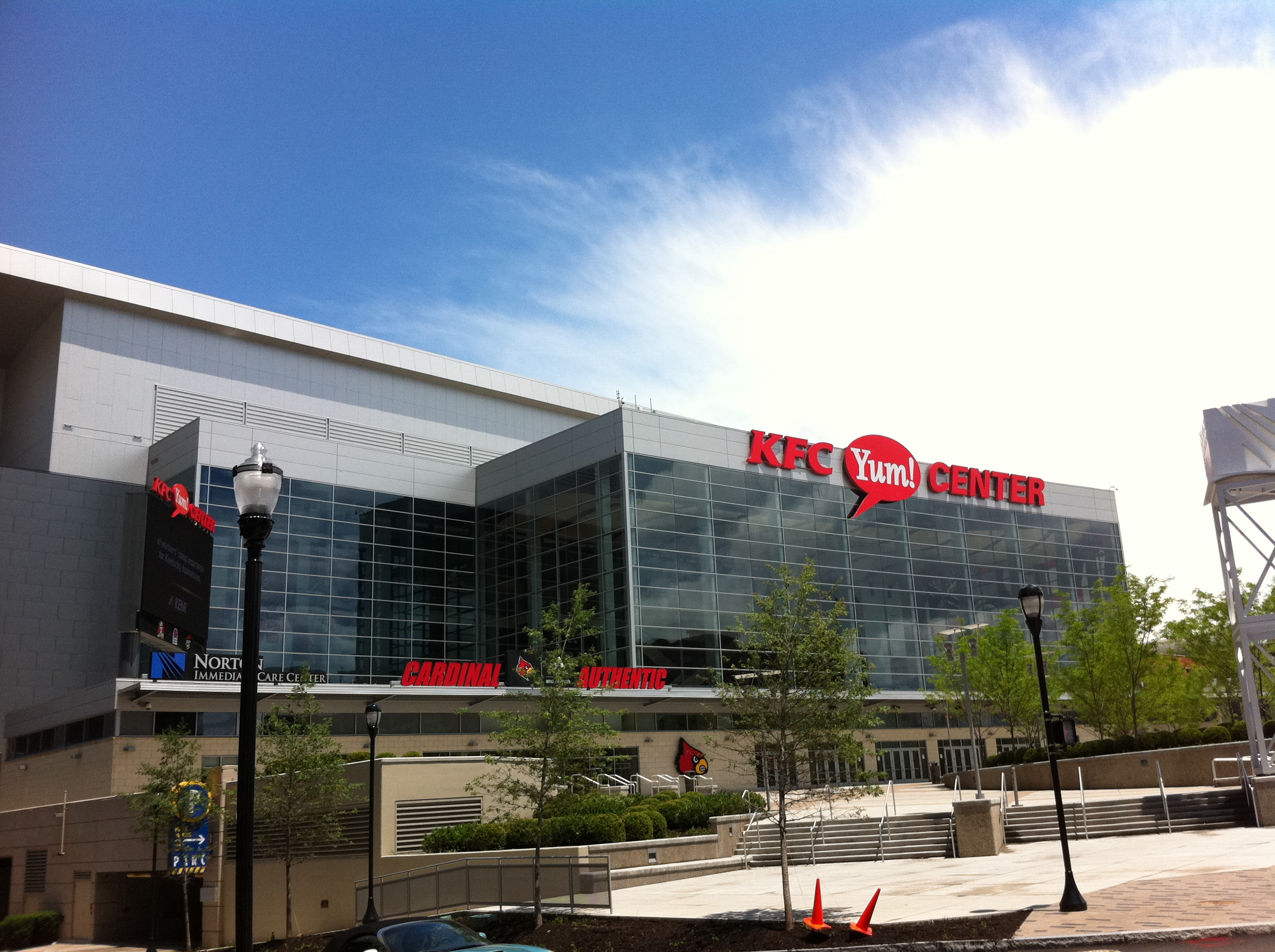 The KFC Yum! Center as seen from Main Street in Downtown Louisville. NOTICE: As the copyright holder of this photo, I must be FULLY credited if you reuse or redistribute this work.